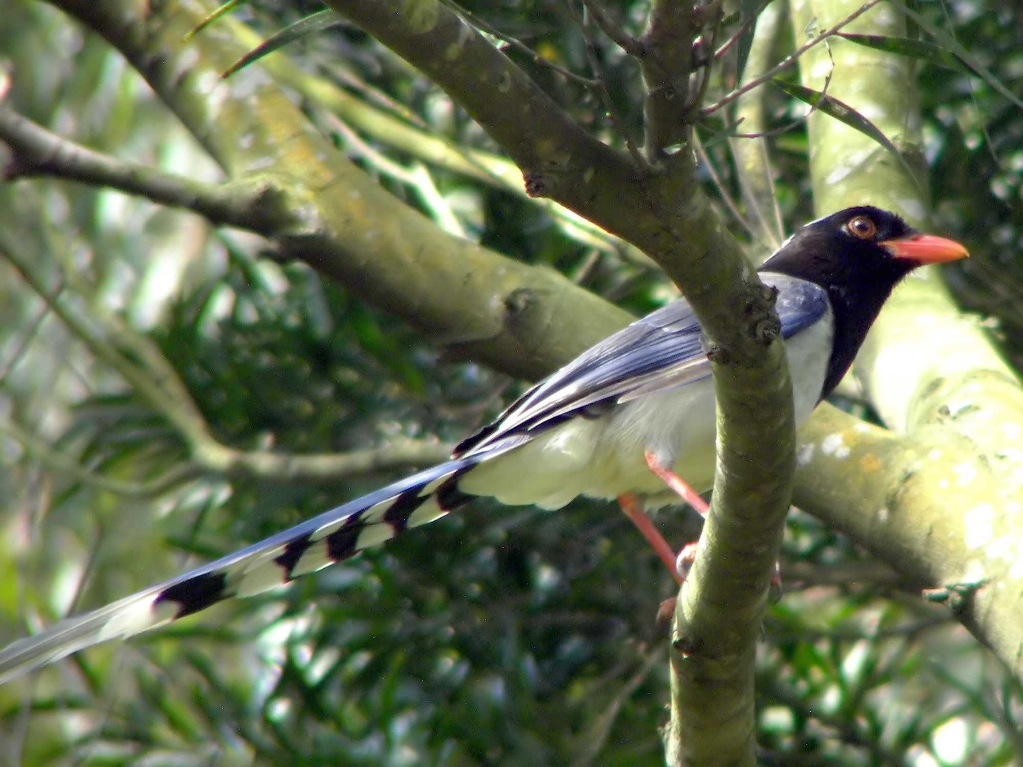 Saw near my home.